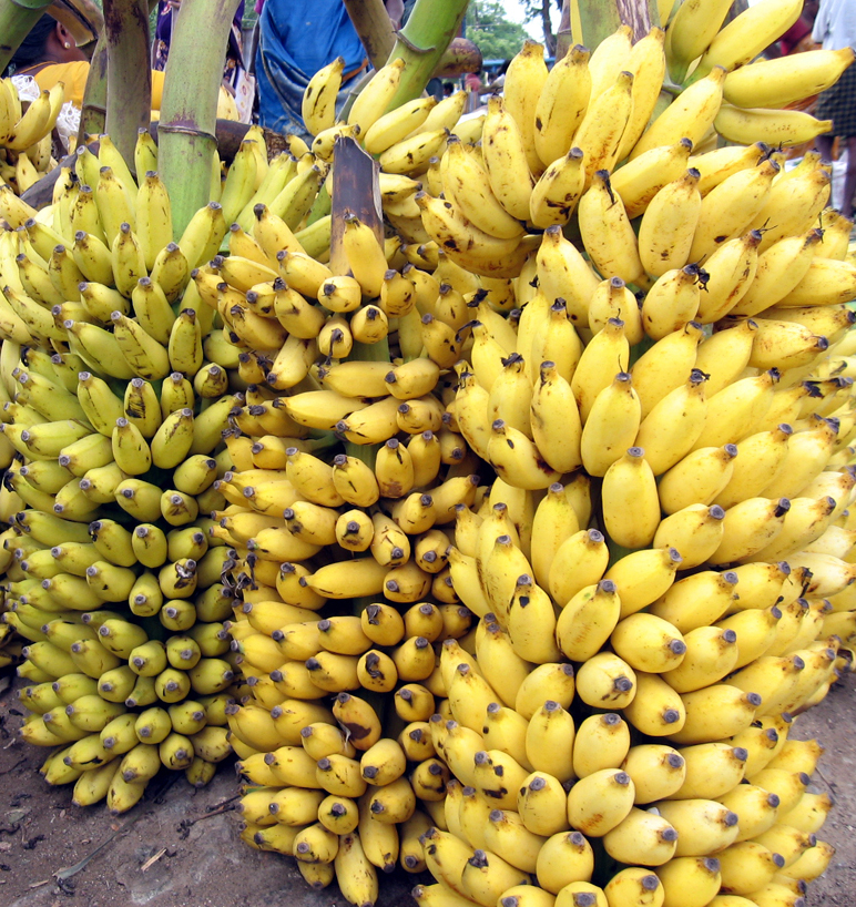 the banana bunchs of Tamilnadu state, India.